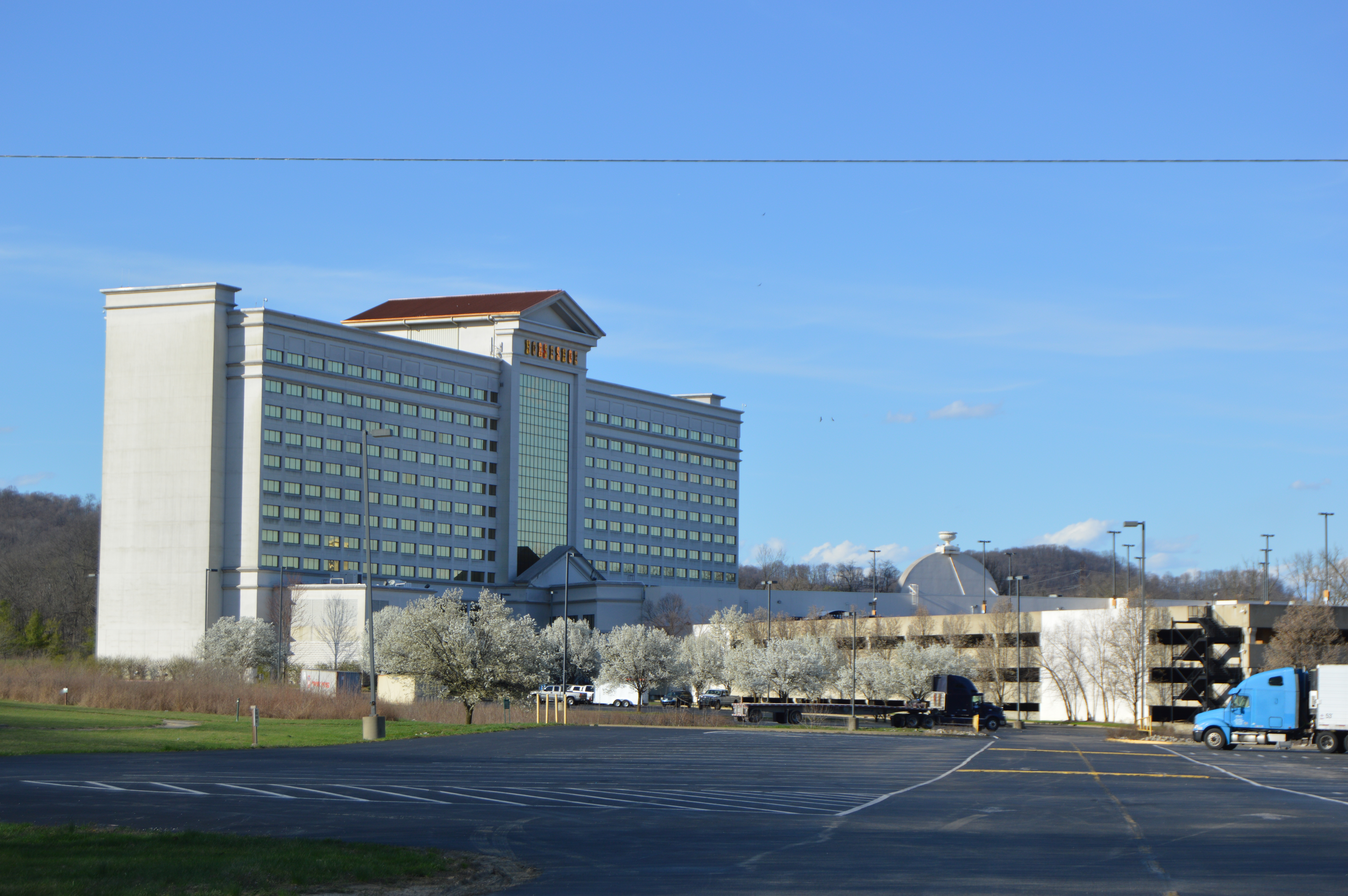 View from the west (seen from Stuckeys Road) of the Horseshoe Southern Indiana casino, located along State Road 111 in northeastern Posey Township, Harrison County, Indiana, United States. It was completed in 1998.